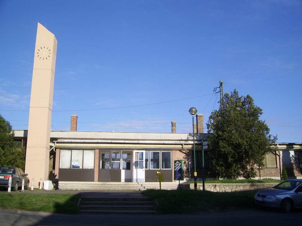 The train station of Vámosgyörk, Hungary